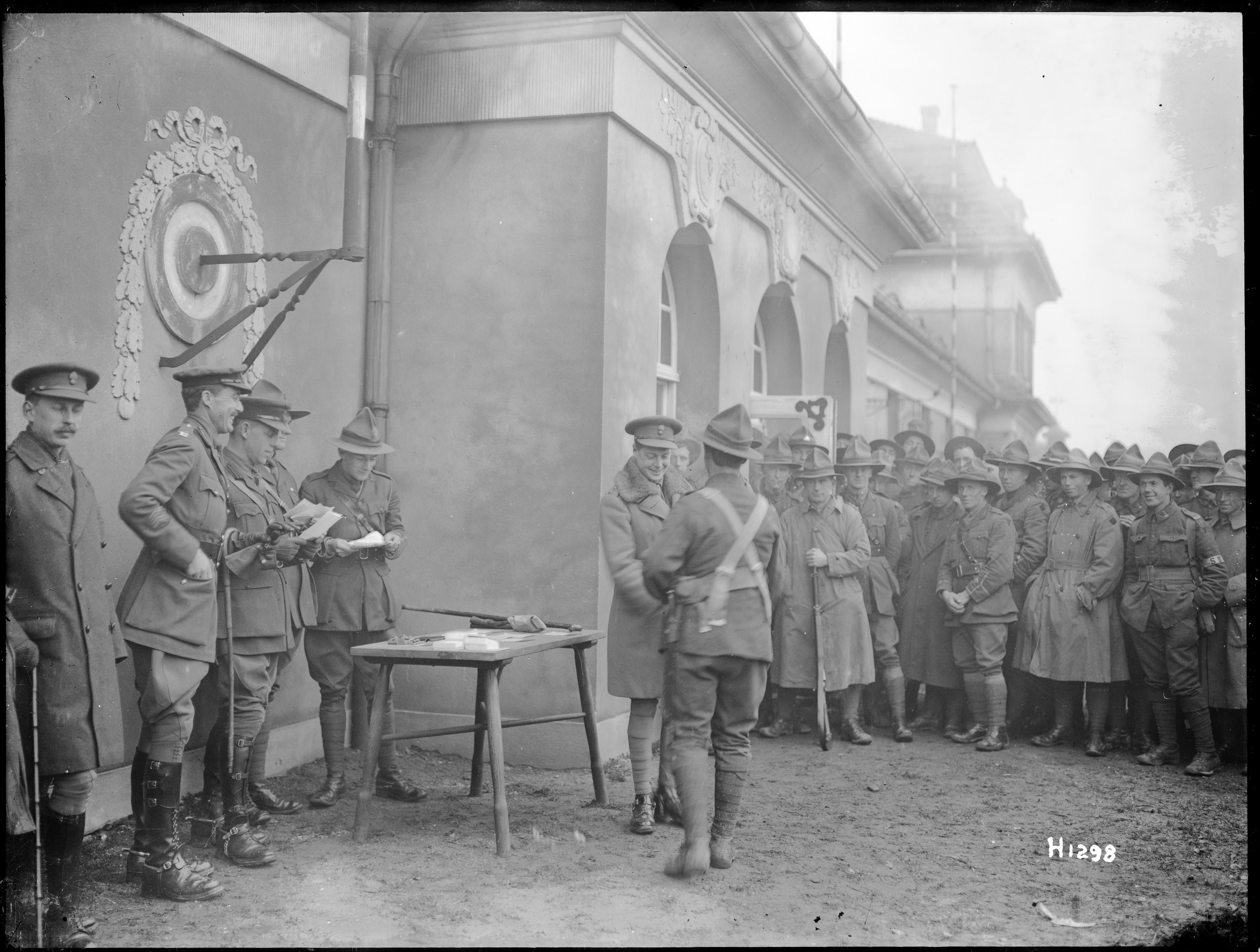 Edward, Prince of Wales, presenting a prize to a soldier at a rifle meeting at the New Zealand Rifle Brigade Headquarters at Gut Mielenforst in Dellbrück (Cologne), Germany, after World War I. The commander, Brigadier General Hart, left, looks on smiling. Photograph taken January 1919 by Henry Armytage Sanders. Inscriptions: Inscribed - Photographer's title on negative -bottom right: H1298. Quantity: 1 b&w original negative(s). Physical Description: Dry plate glass negative 6.5 x 8.5 inches The Prince of Wales presenting prizes at a rifle meeting, New Zealand Rifle Brigade Headquarters, Bruck, Germany. Royal New Zealand Returned and Services' Association :New Zealand official negatives, World War 1914-1918. Ref: 1/1-002116-G. Alexander Turnbull Library, Wellington, New Zealand.